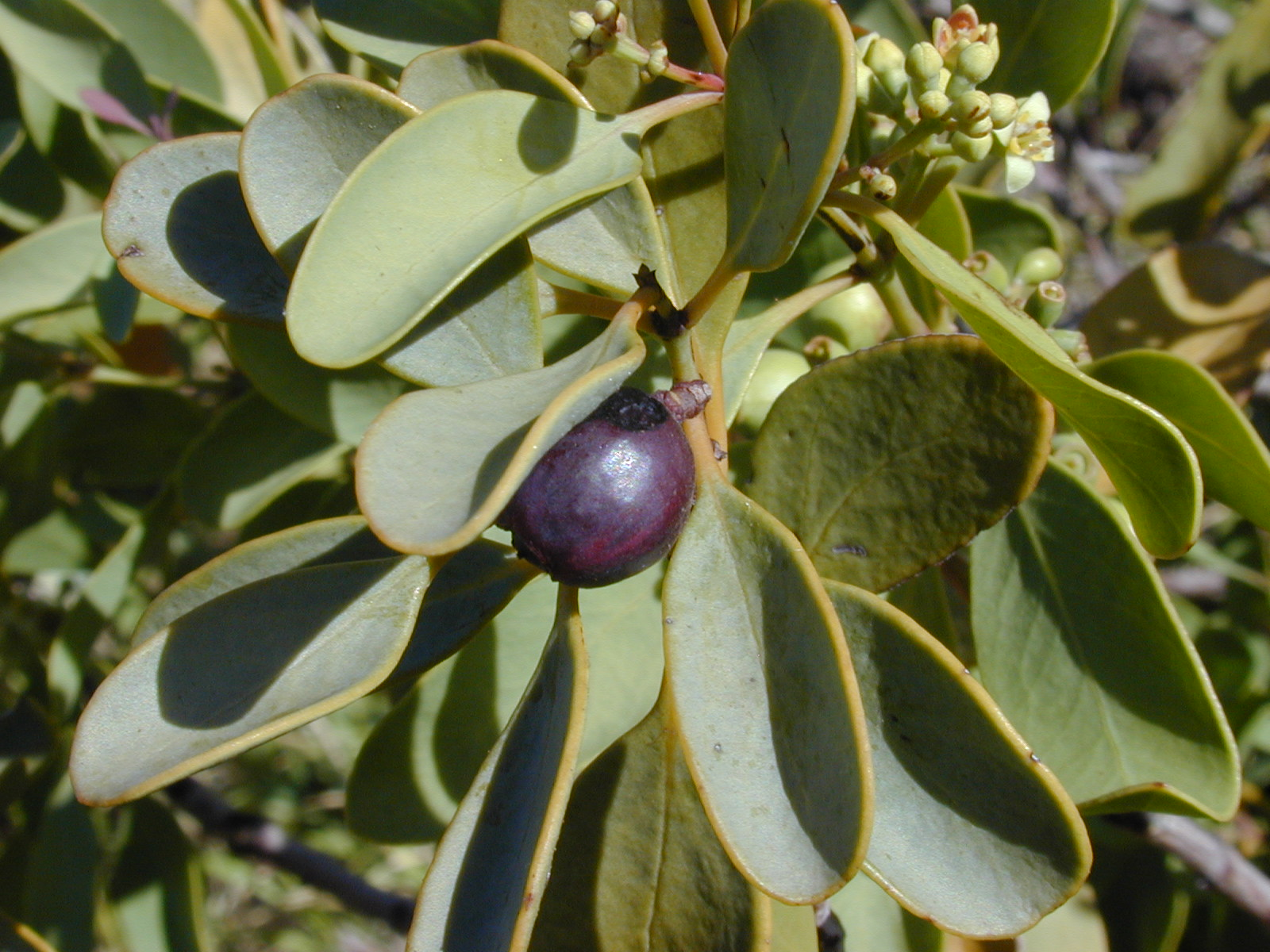 Santalum ellipticum (fruit). Location: Maui, Lahaina Pali Trail